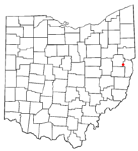 city of Amsterdam, Ohio